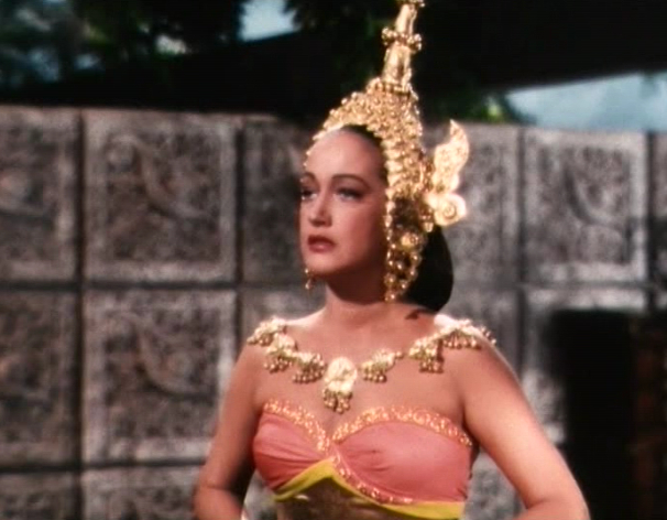 Cropped screenshot of Dorothy Lamour from the film Road to Bali.